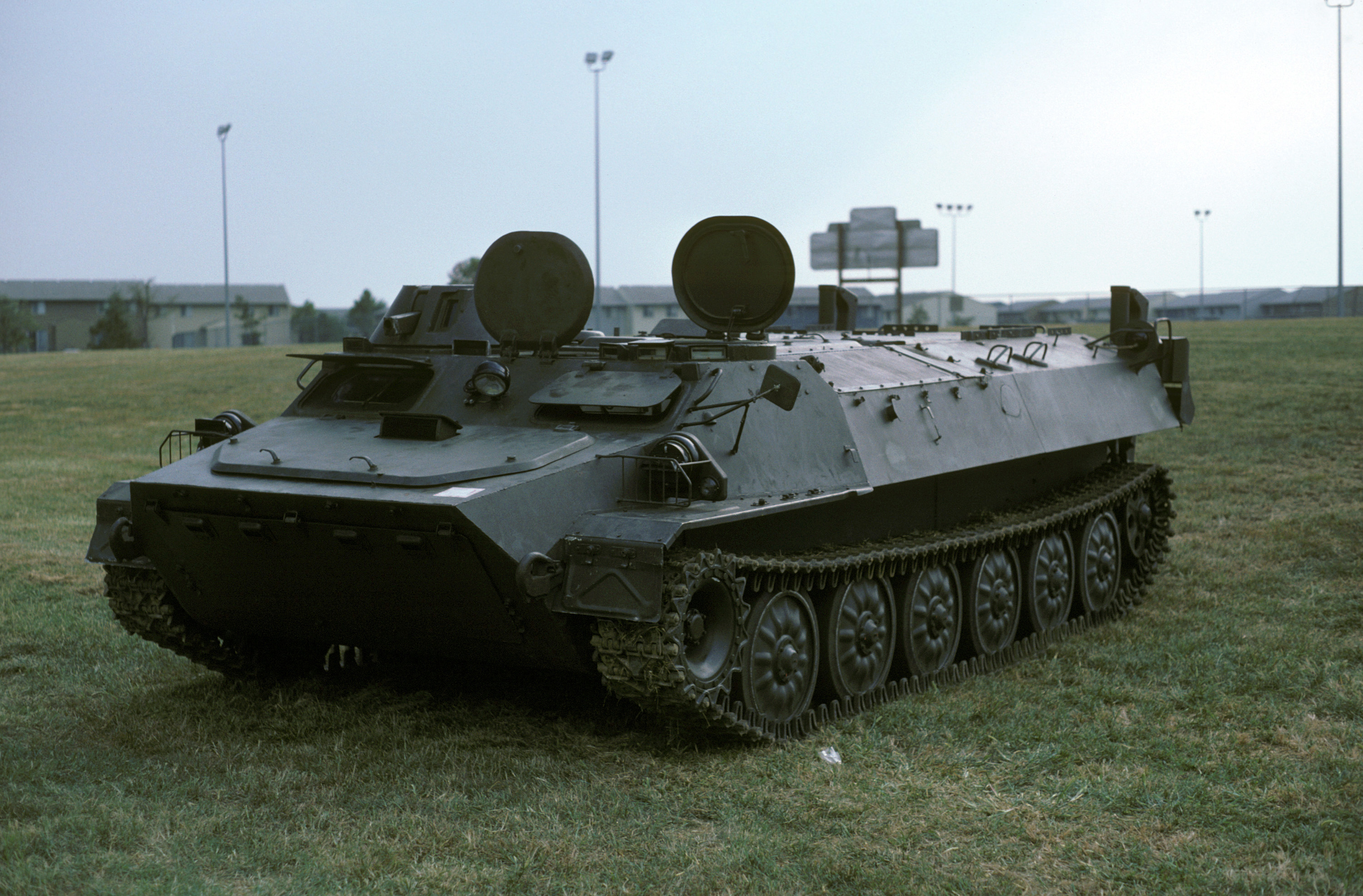 A left front view of a Soviet MT-LB multi-purpose tracked vehicle on display at Bolling Air Force Base.